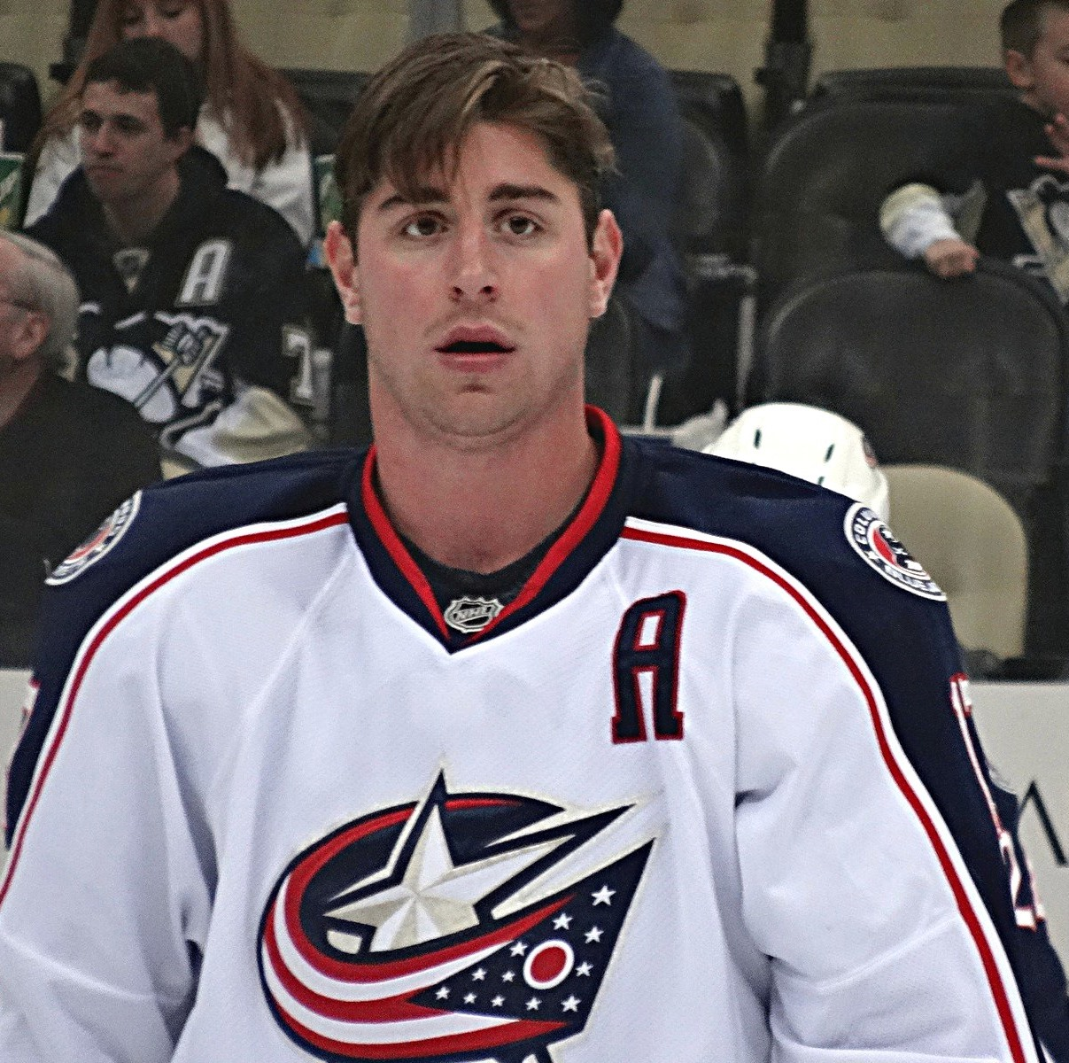 Columbus Blue Jackets forward Brandon Dubinsky warms up before a game against the Pittsburgh Penguins, November 1, 2013, at Consol Energy Center in Pittsburgh, PA.